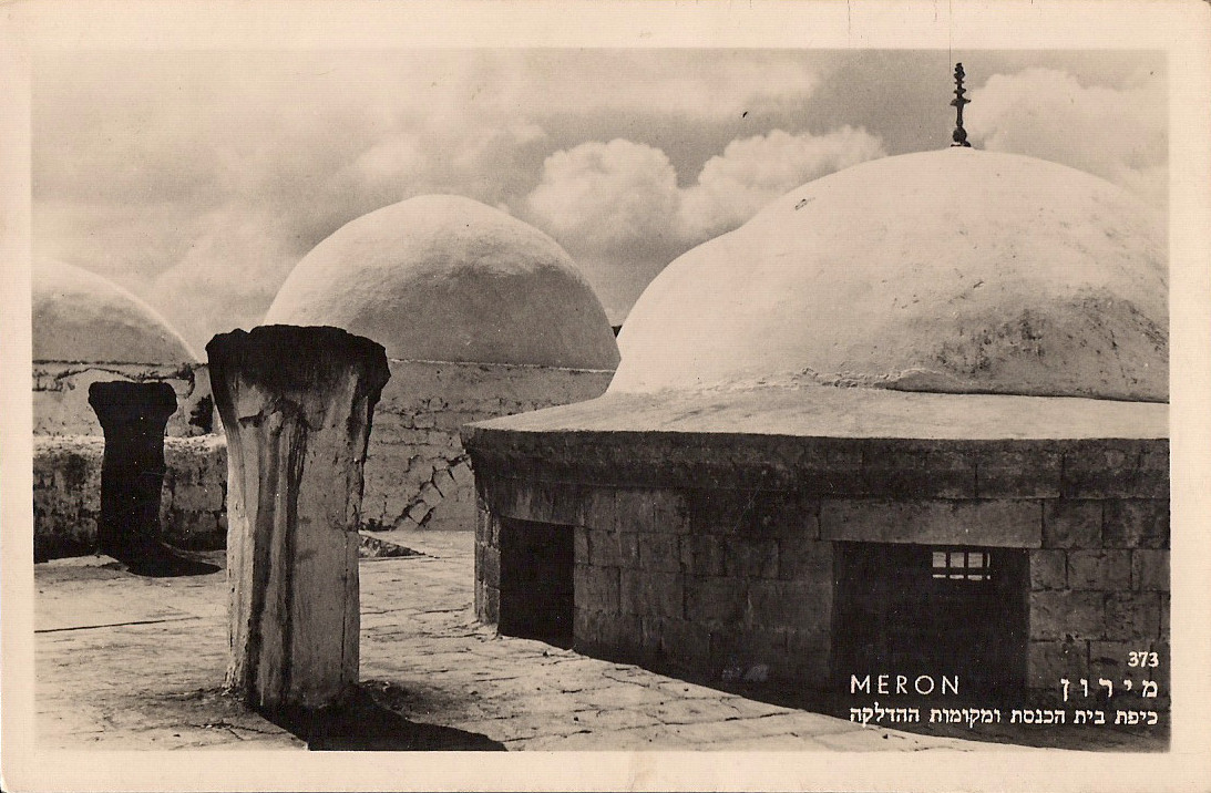 Meron, Geography of Israel